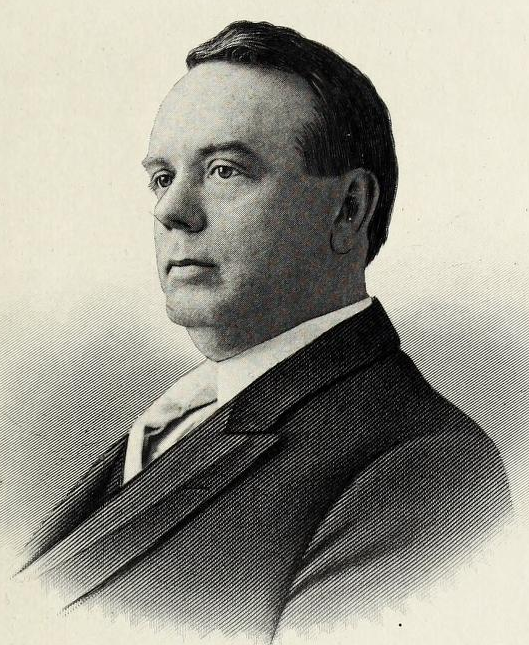 James O'H. Patterson (South Carolina Congressman)